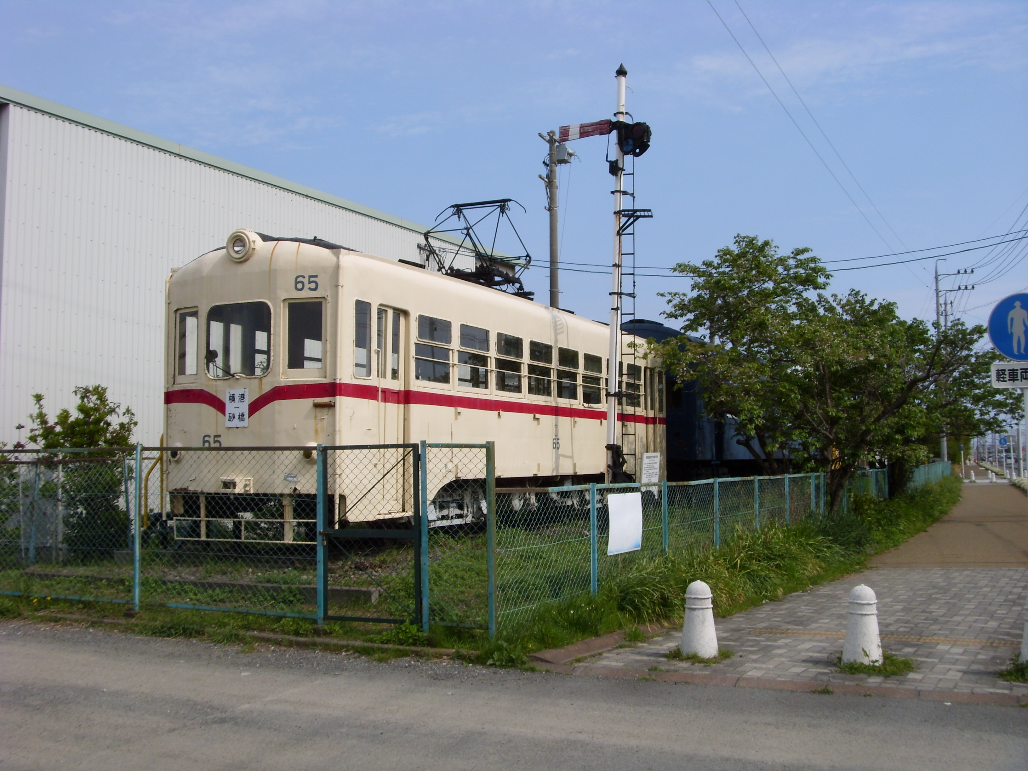 train on the shimizu port line track